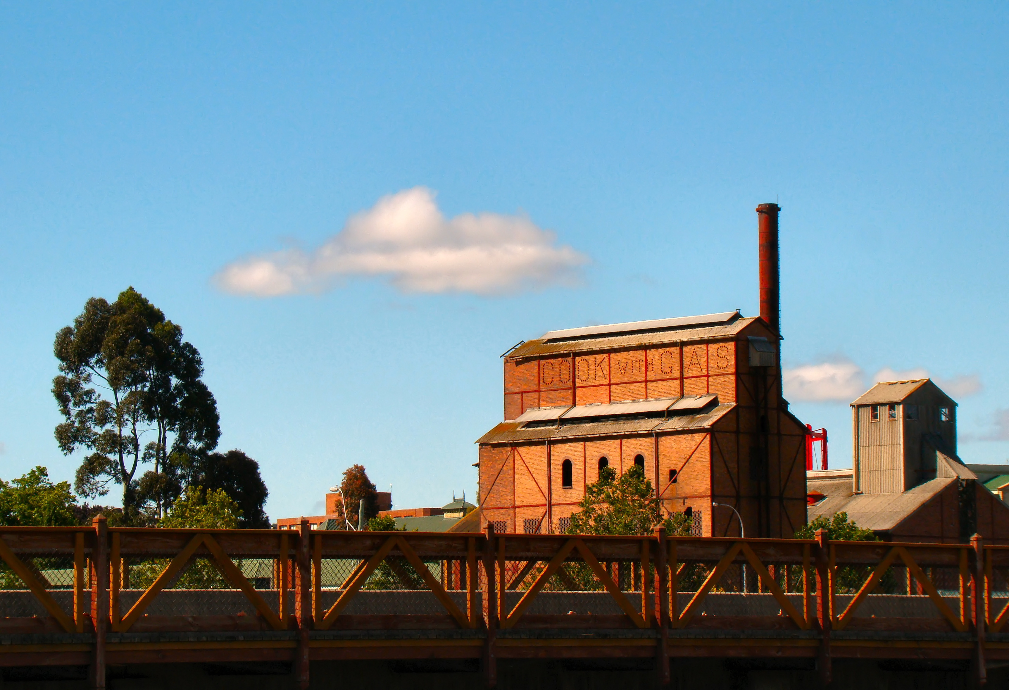 A vertical retort house built in 1932 for the Launceston Gas Works in northern Tasmania. The advertisement "COOK with GAS" remains, although the building is "retired". More info can be found at